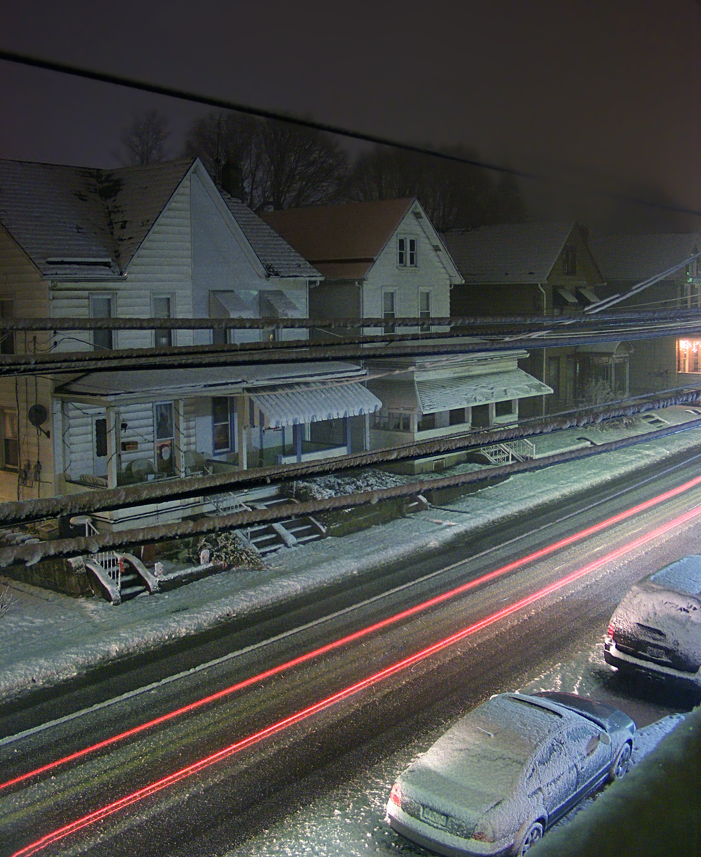 Route 512, Pen Argyl, Northampton County. Long-exposure shot taken through a window.